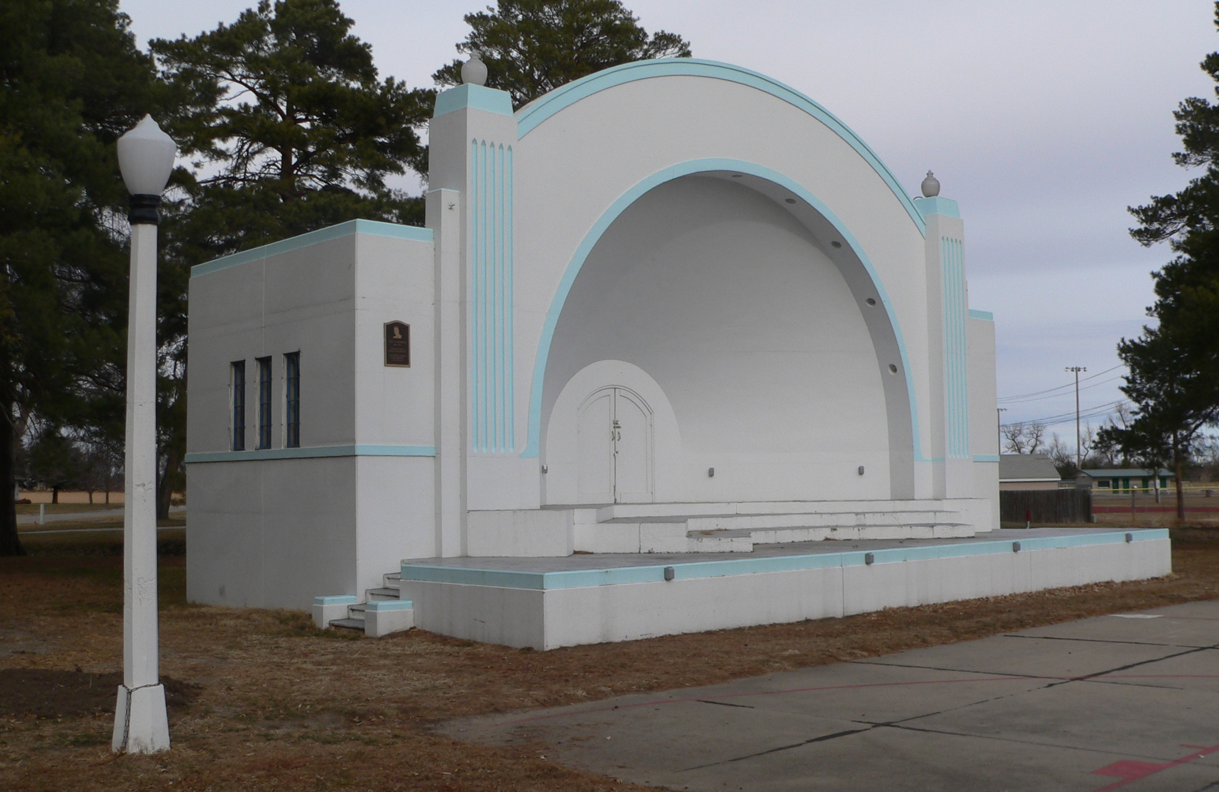 Bandshell in Plainview, Nebraska.